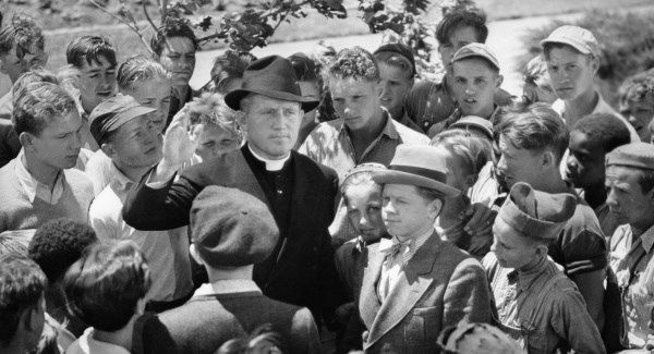 Promotional still for the 1938 film Boys Town